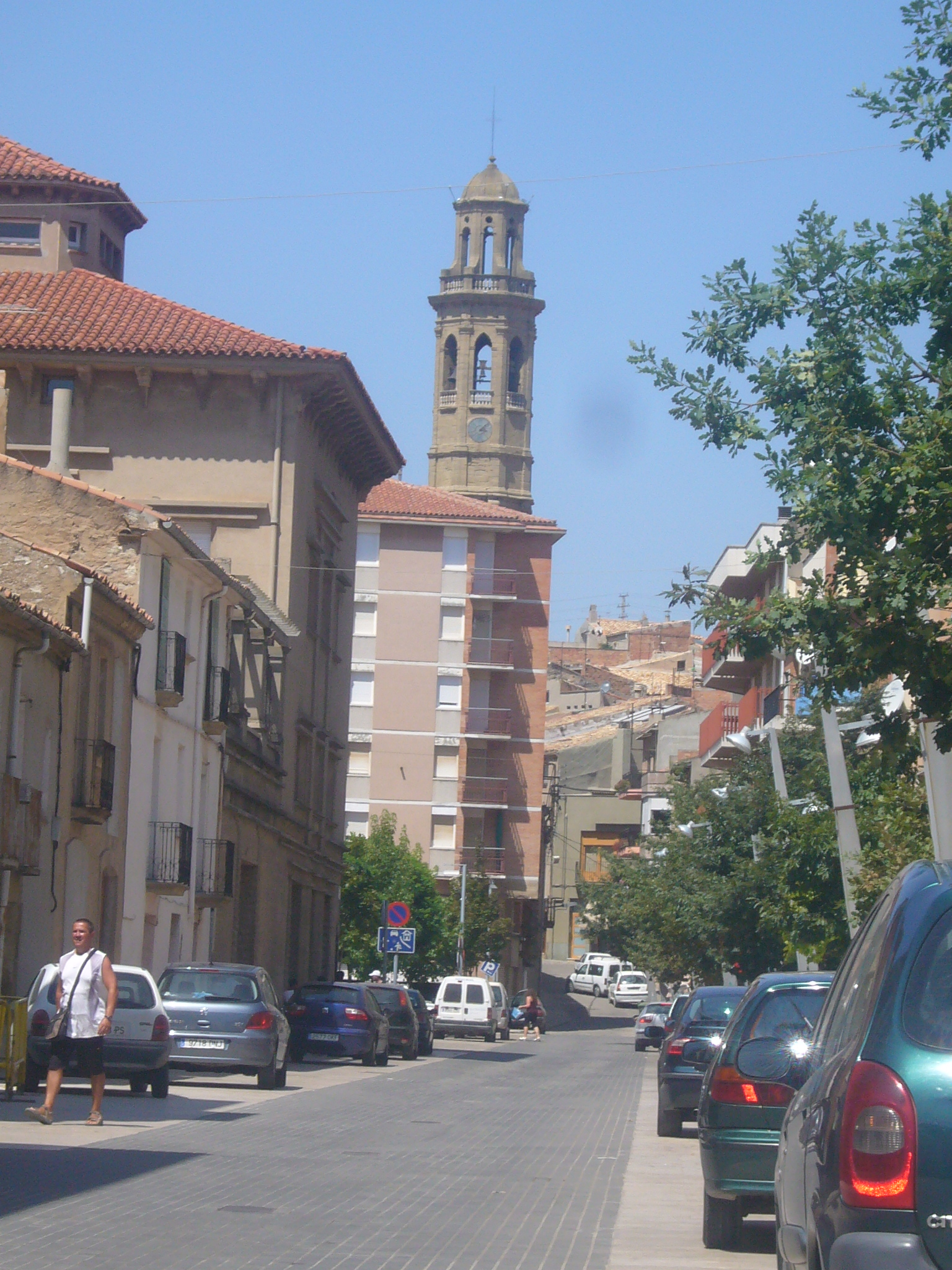 Calaf bell tower at the background